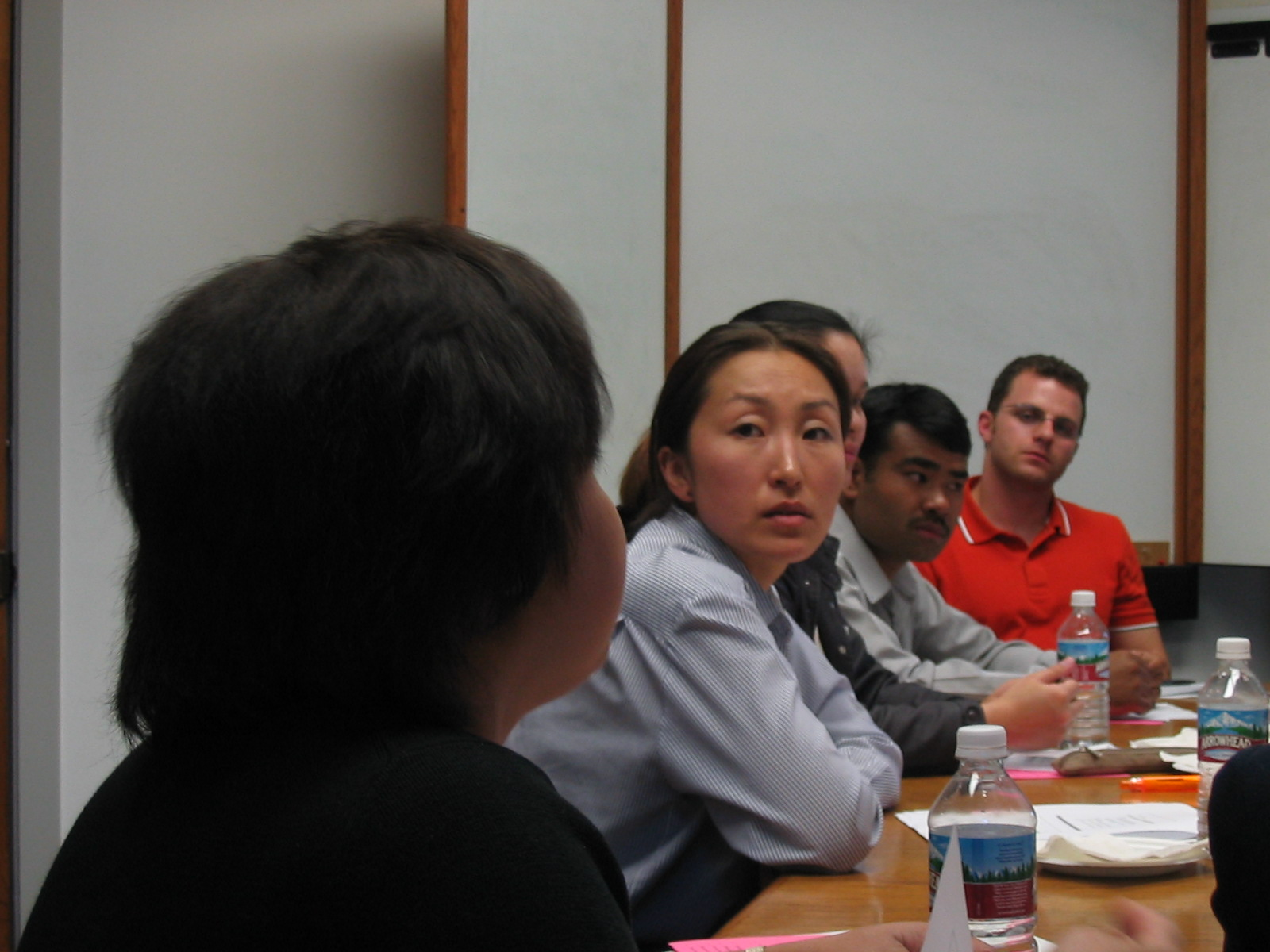 people at an up glo workshop!